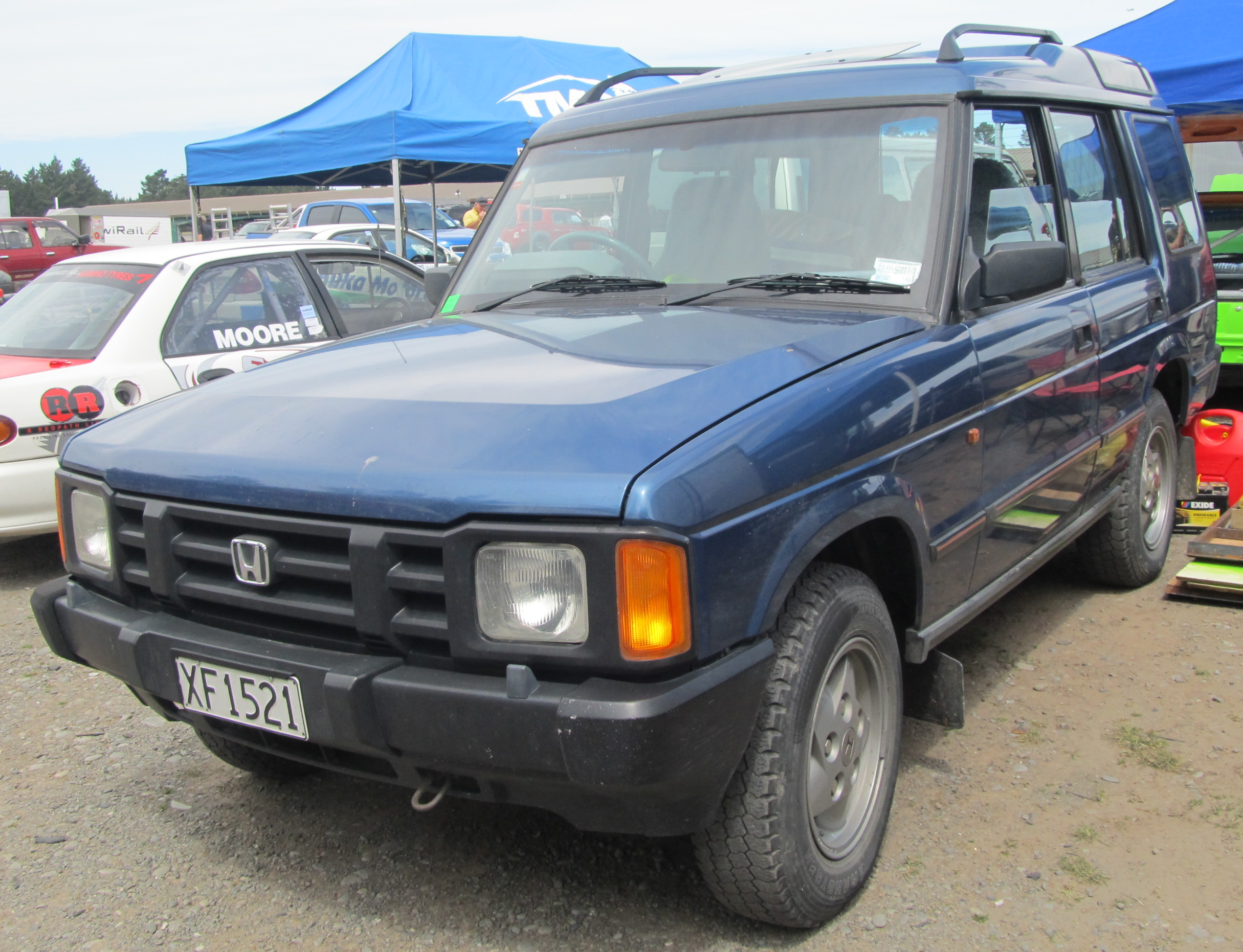 XF1521 Here we have one of the most heinous badge engineering exercises ever! I think the only differences from the standard Discovery are the badges on the grille, hatch and hubcap centres... At least it retained the 3.5-litre Rover V8!